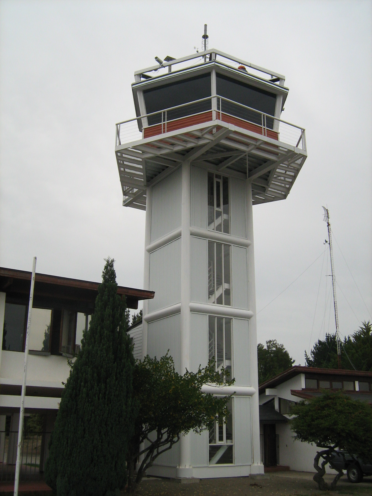 Nueva Torre de control SCGE